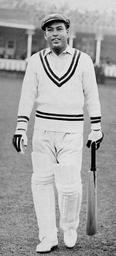 Phiroze Palia walking out to bat for India during a practice match against AP Freeman's XI at Gravesend before the start of the All India cricket team's tour of England, 29th April 1936.